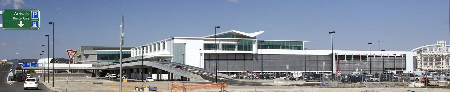 New terminal building at Canberra Airport.